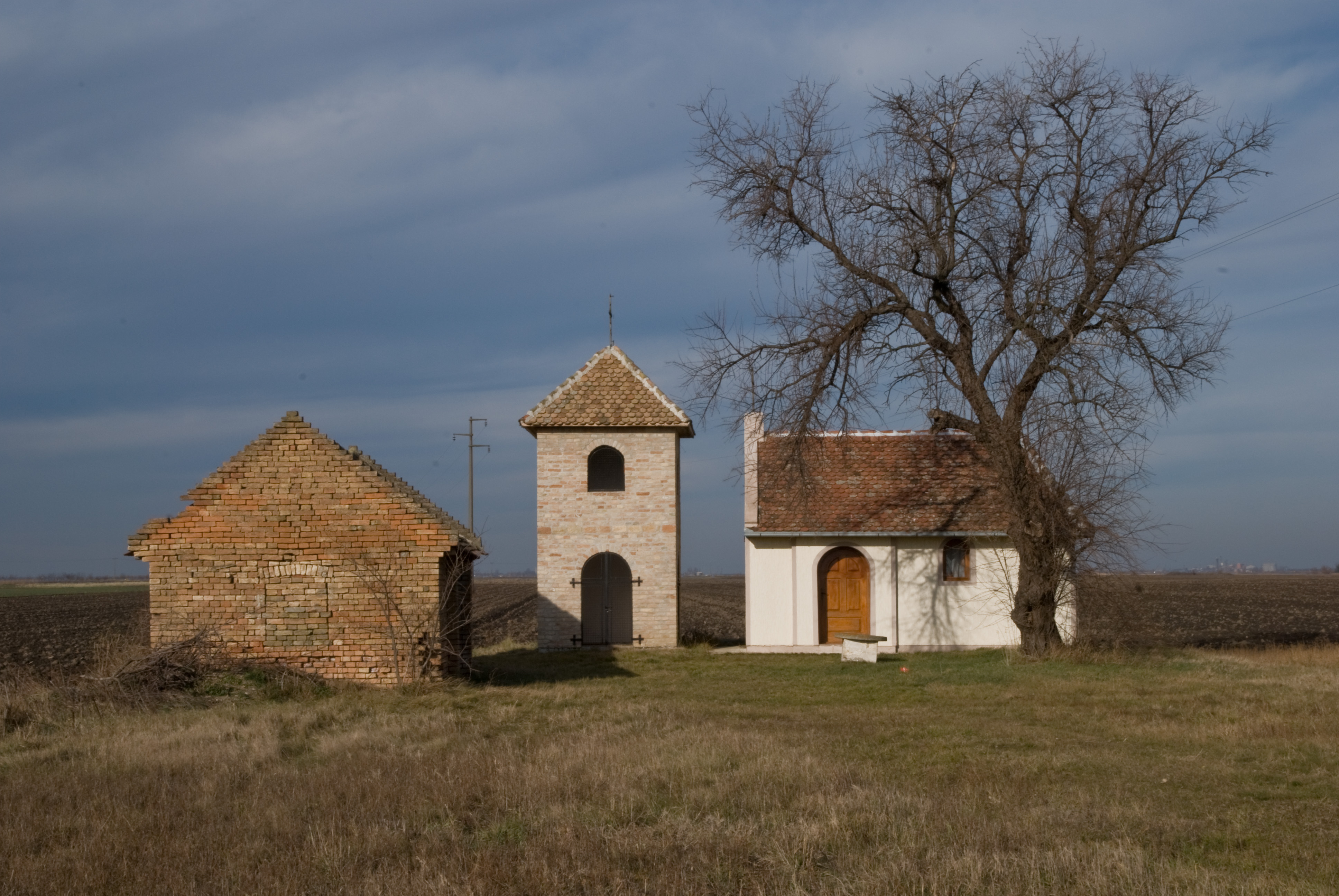 Vodica of Holy Unmercenaries in Crepaja, Kovačica